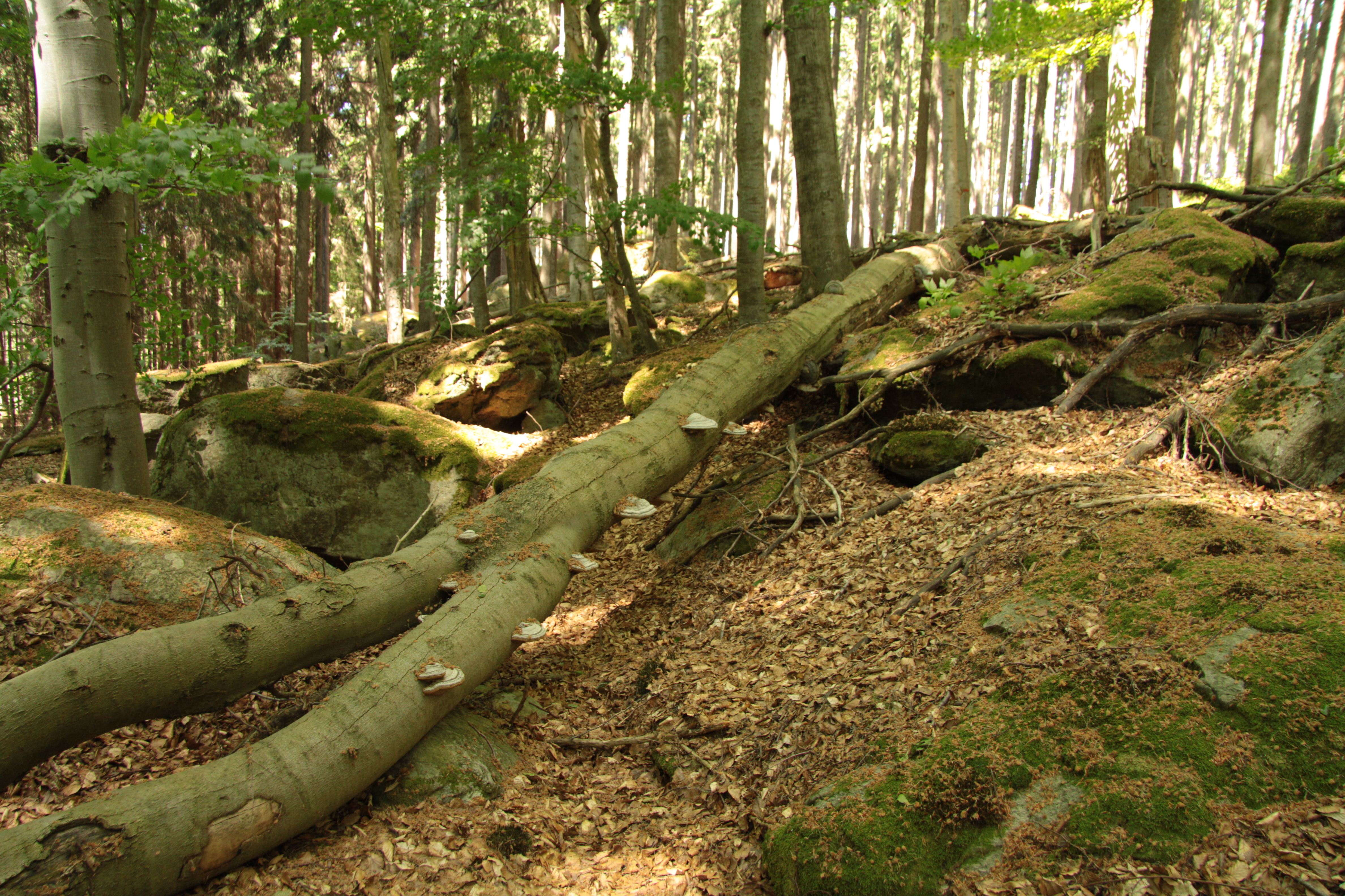 Natural monument Velký kámen near Bližanovy village, Klatovy District, Czech Republic - Google Maps - Google Earth